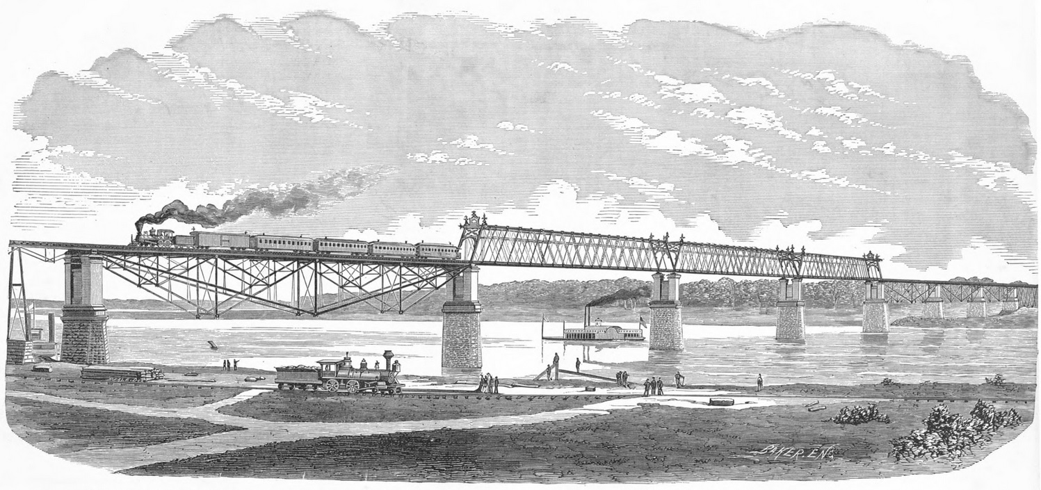 Railroad Bride over the Missouri River, at St. Charles, MO., 18 Miles from St. Louis, 1871